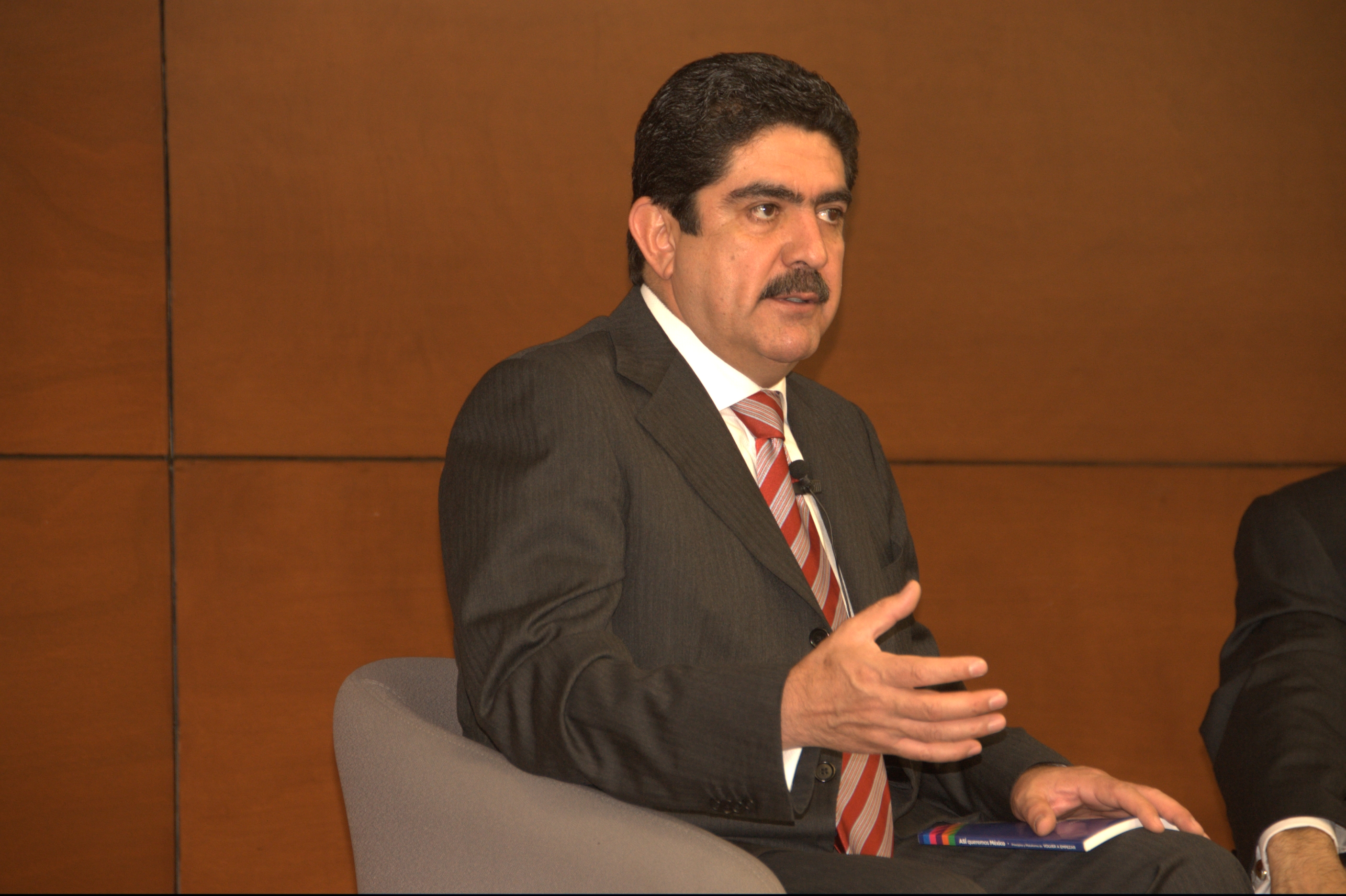 Manuel Espino at the presentation of his book “Calderón de cuerpo entero” of Manuel Espino at ITESM- Campus Ciudad de México